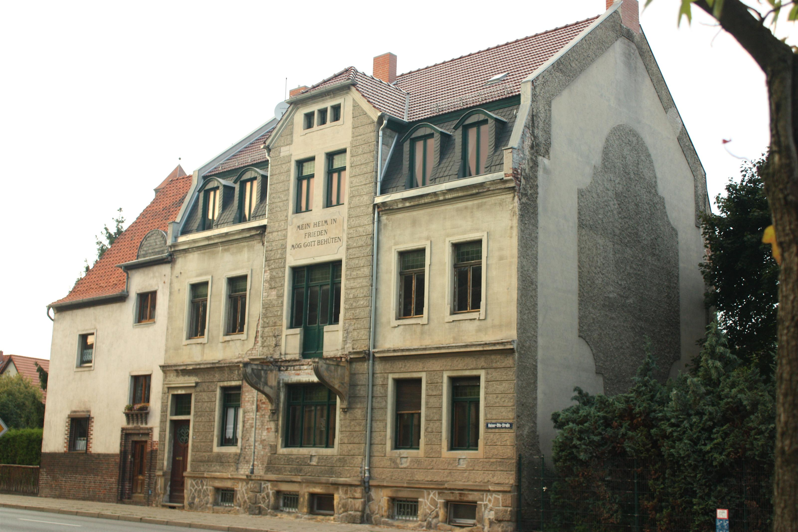 This is a photograph of an architectural monument.It is on the list of cultural monuments of Quedlinburg Kaiser-Otto-Straße 16 (Quedlinburg)